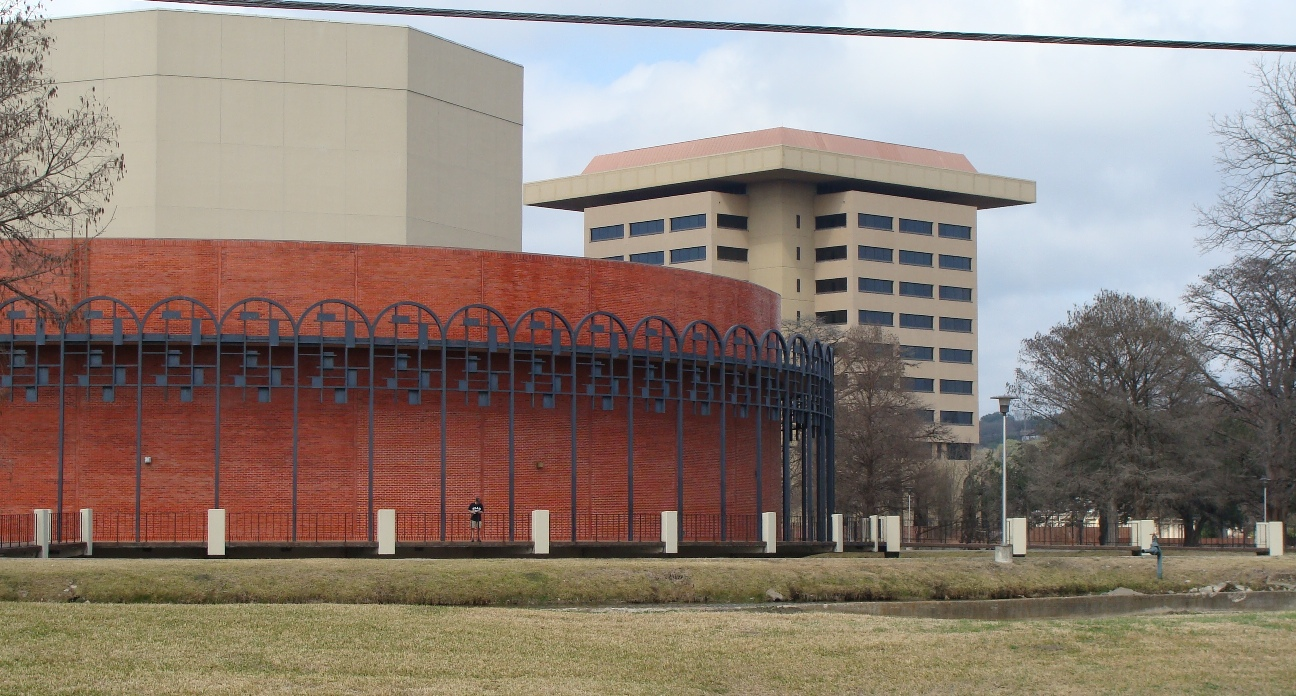 Texas State University-San Marcos